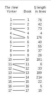 Variants by section between versions 2004 (in journal The New Yorker) and 2004 (own collection, book) of Alice Munro's story "Passion", with length of book sections, by number of lines